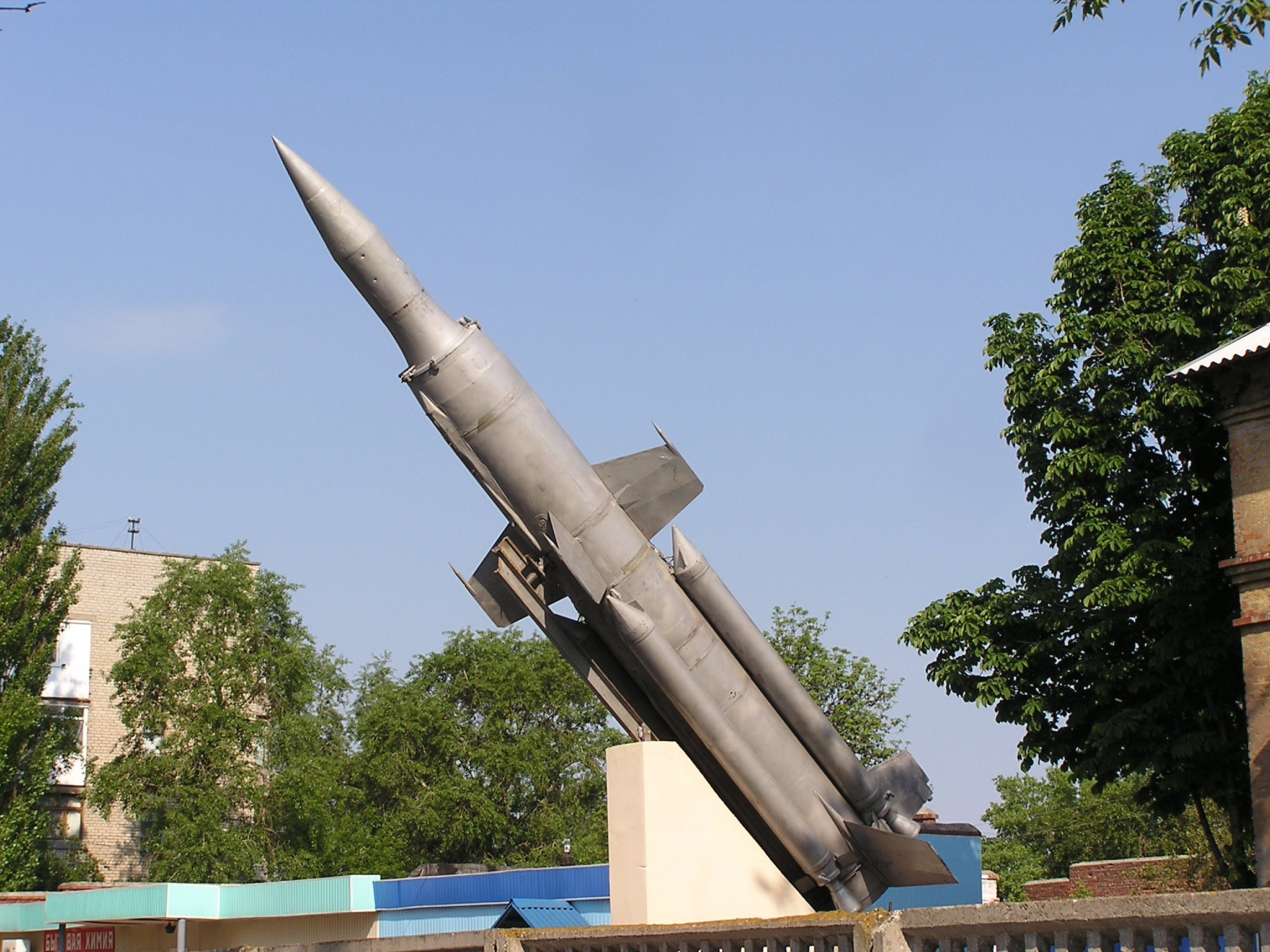 Soviet SA-4 Ganef Surface to Air Missile